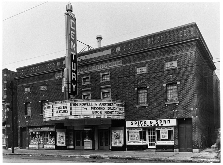 The Century Theatre, formerly the Allen Danforth, on Danforth Avenue in Toronto, Ontario, Canada. The films listed on the marquee (Another Thin Man and Missing Daughters) were both released in 1939.